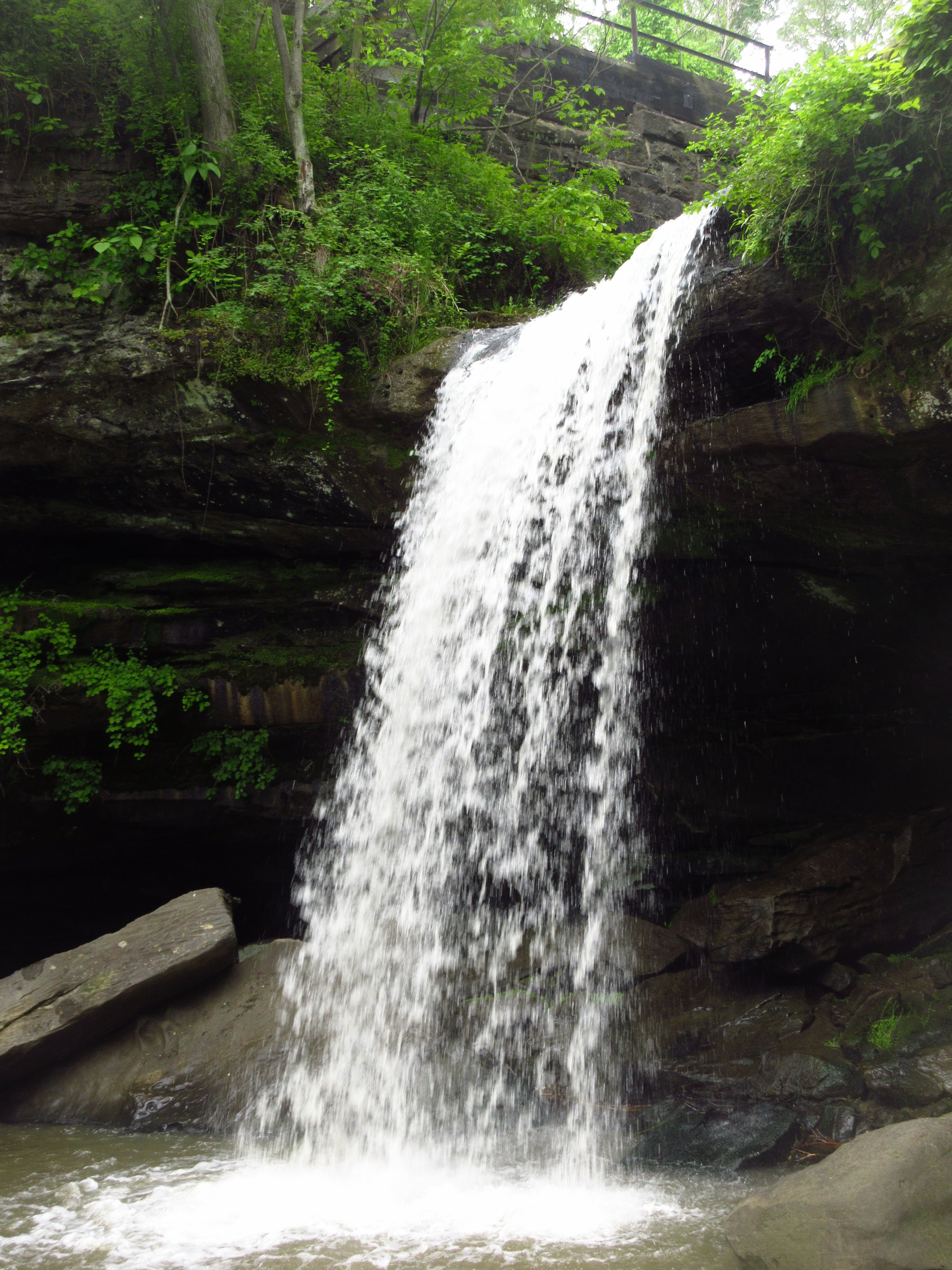 Homewood Falls (also known as Buttermilk Falls)